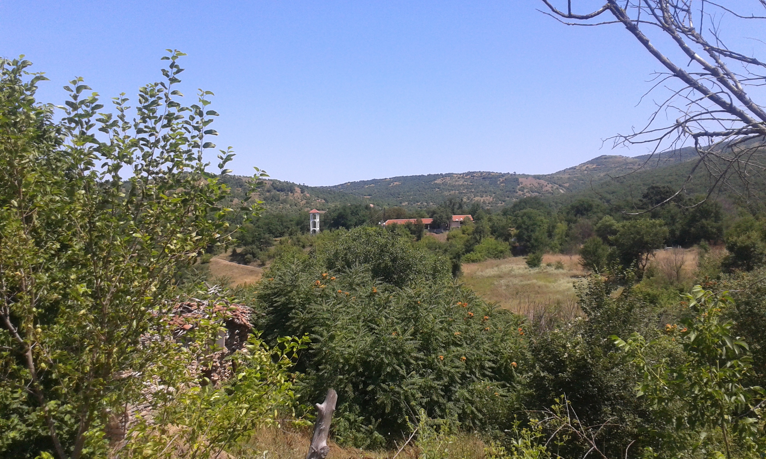 Church of the Ascension of Christ in the village Gradmanci, Macedonia